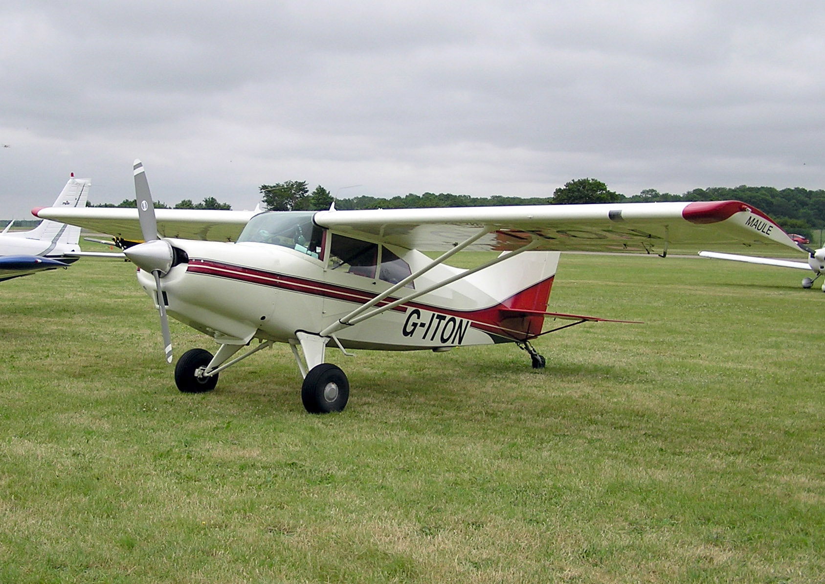 Maule MX-7-235 Super Rocket (UK registration G-ITON, date of build 1987) at Kemble Airfield, Gloucestershire, England. Photographed by Adrian Pingstone in July 2005 at a PFA Rally and released to the public domain.